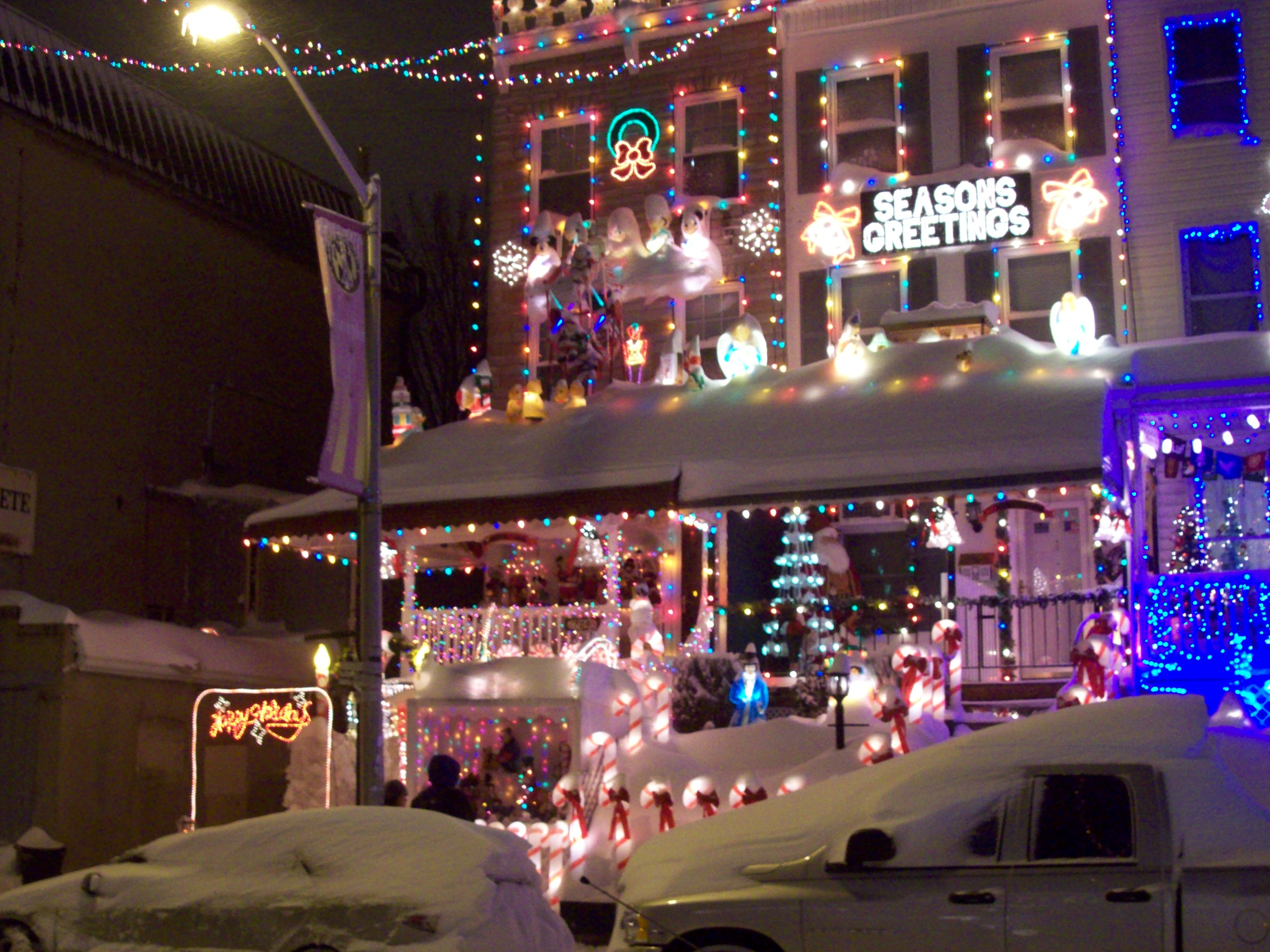 Photo of the Christmas lights on 34th Street in Hampden (Baltimore, Maryland).